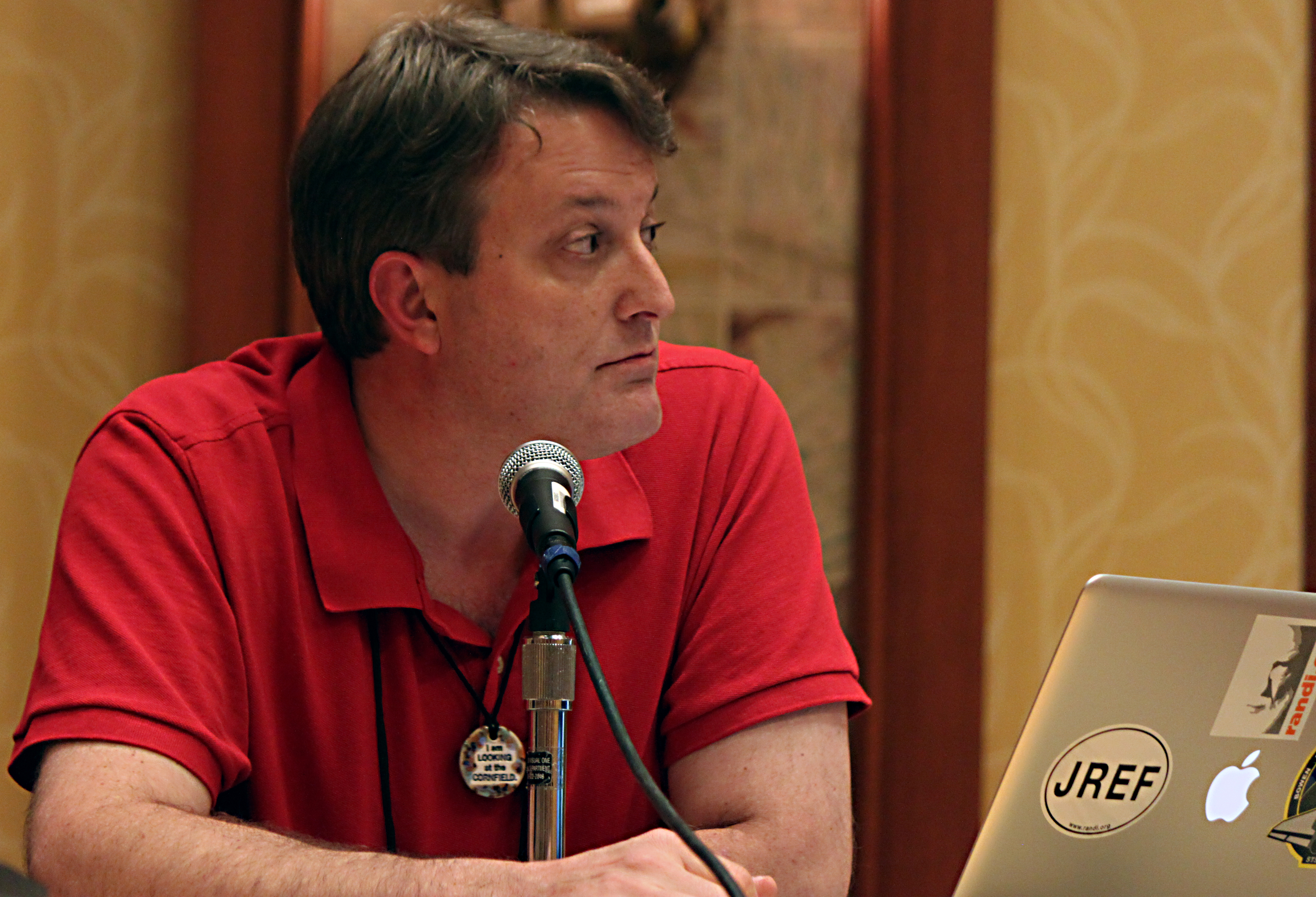 Tim Farley at The Amaz!ng Meeting 9 in Las Vegas, Nevada.